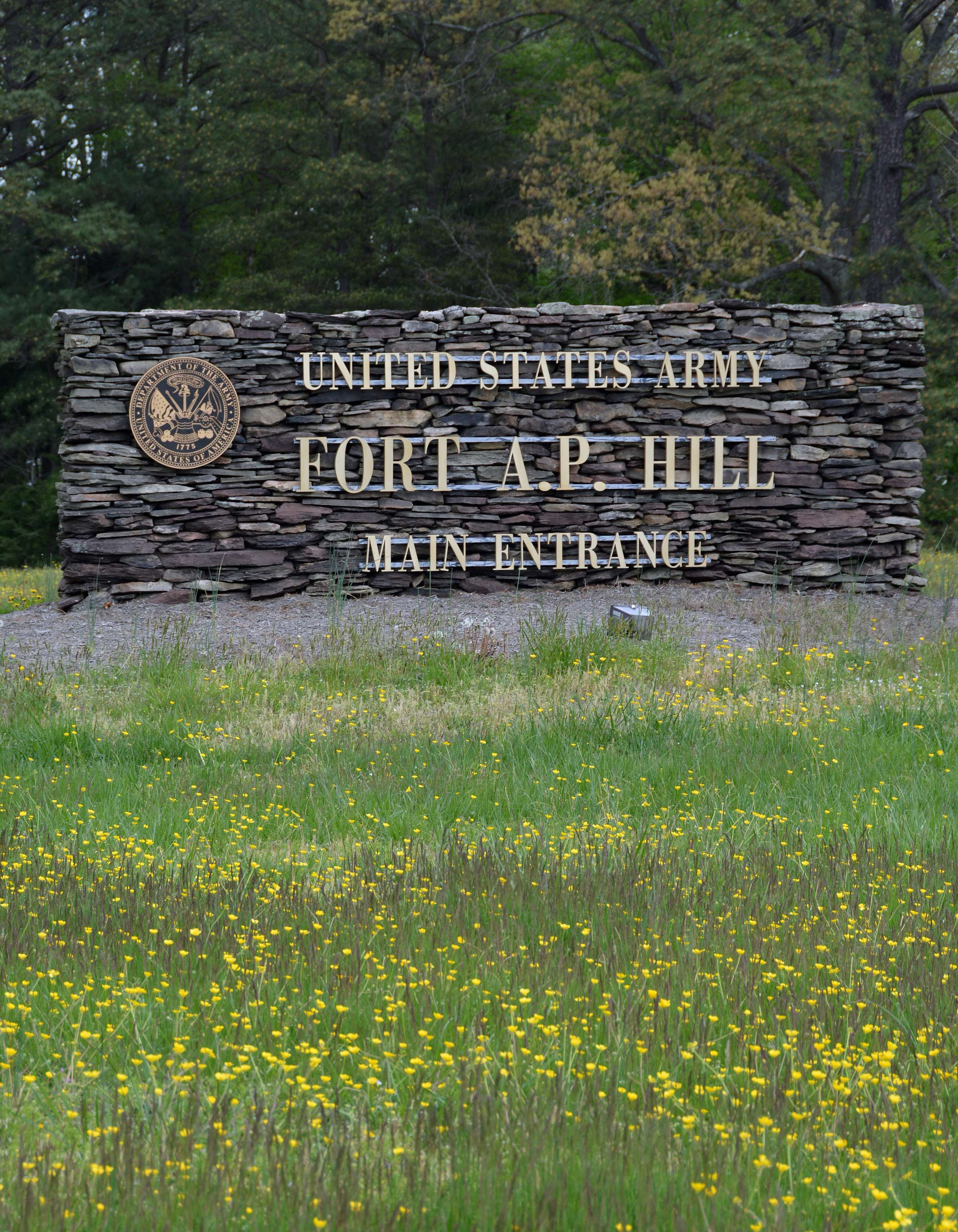 Photo of the U.S. Army Garrison Fort A.P. Hill front sign on Route 301, in Virginia in the spring.